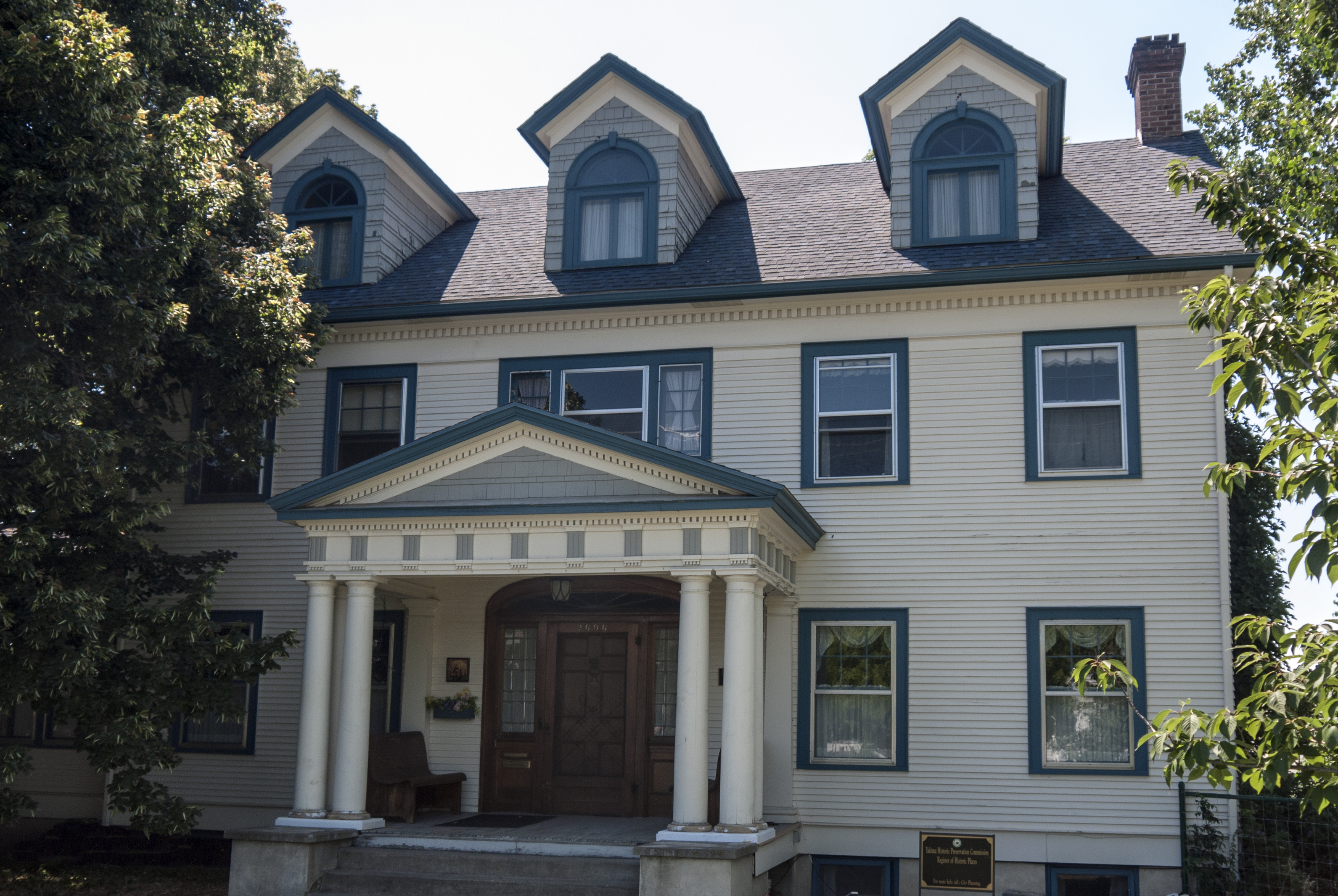 North face of the E. William Brackett home in Yakima Washington. Shot using a Panasonic GF-2 with a 14-45mm lens